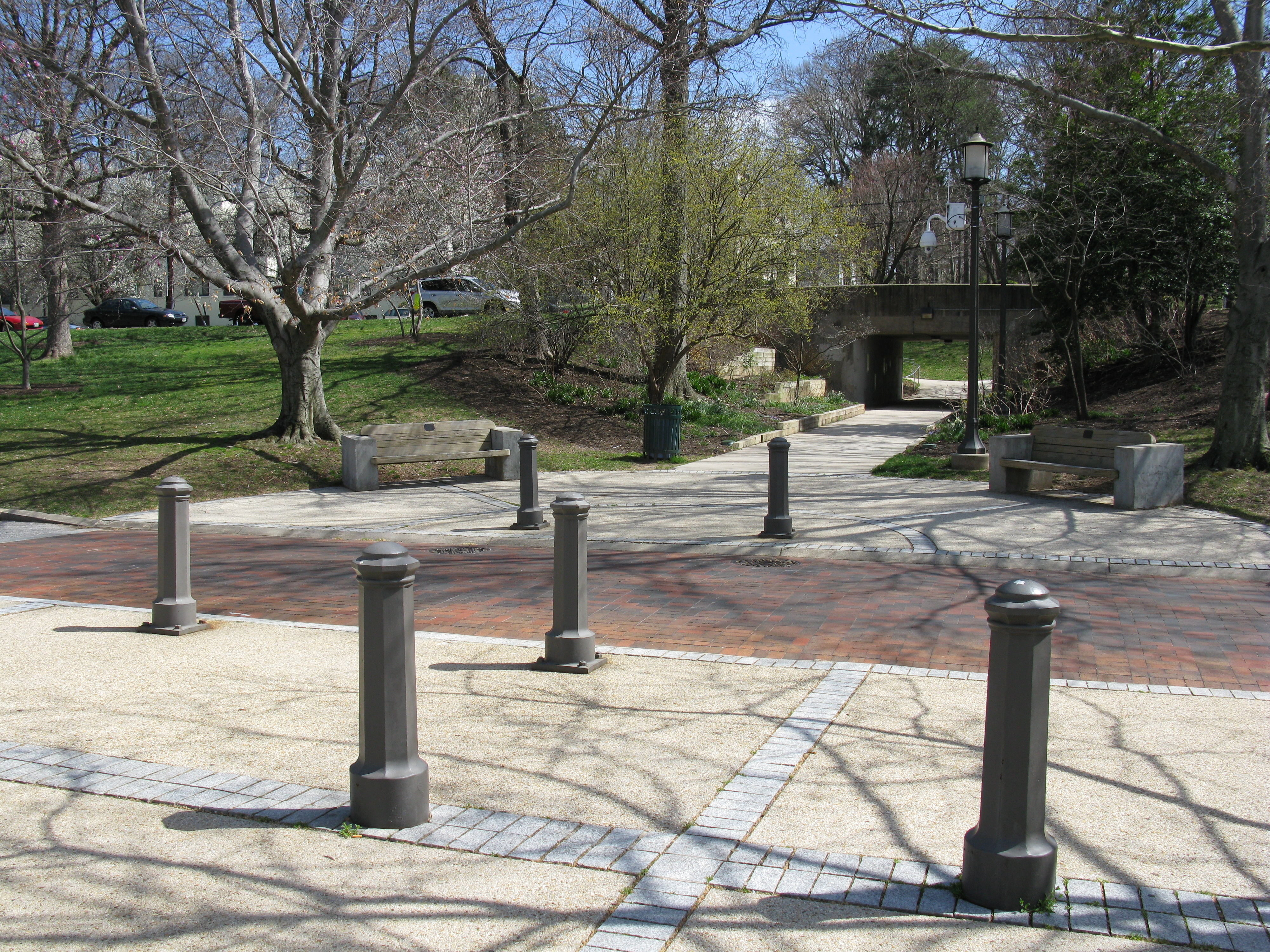 A grade-separated pedestrian-roadway crossing beneath Crescent Road in Greenbelt, Maryland